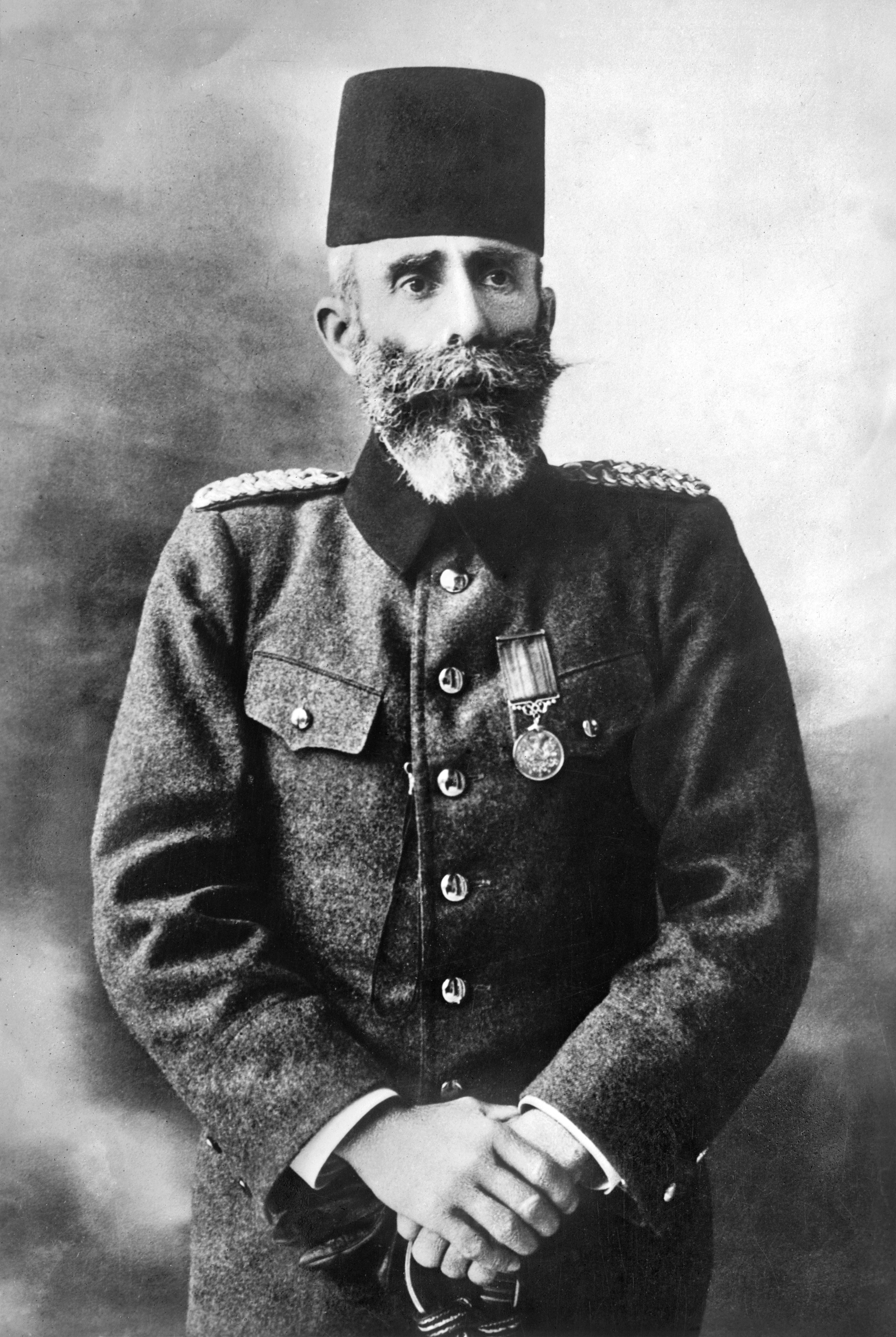 Shevket Pasha (1856–1913)